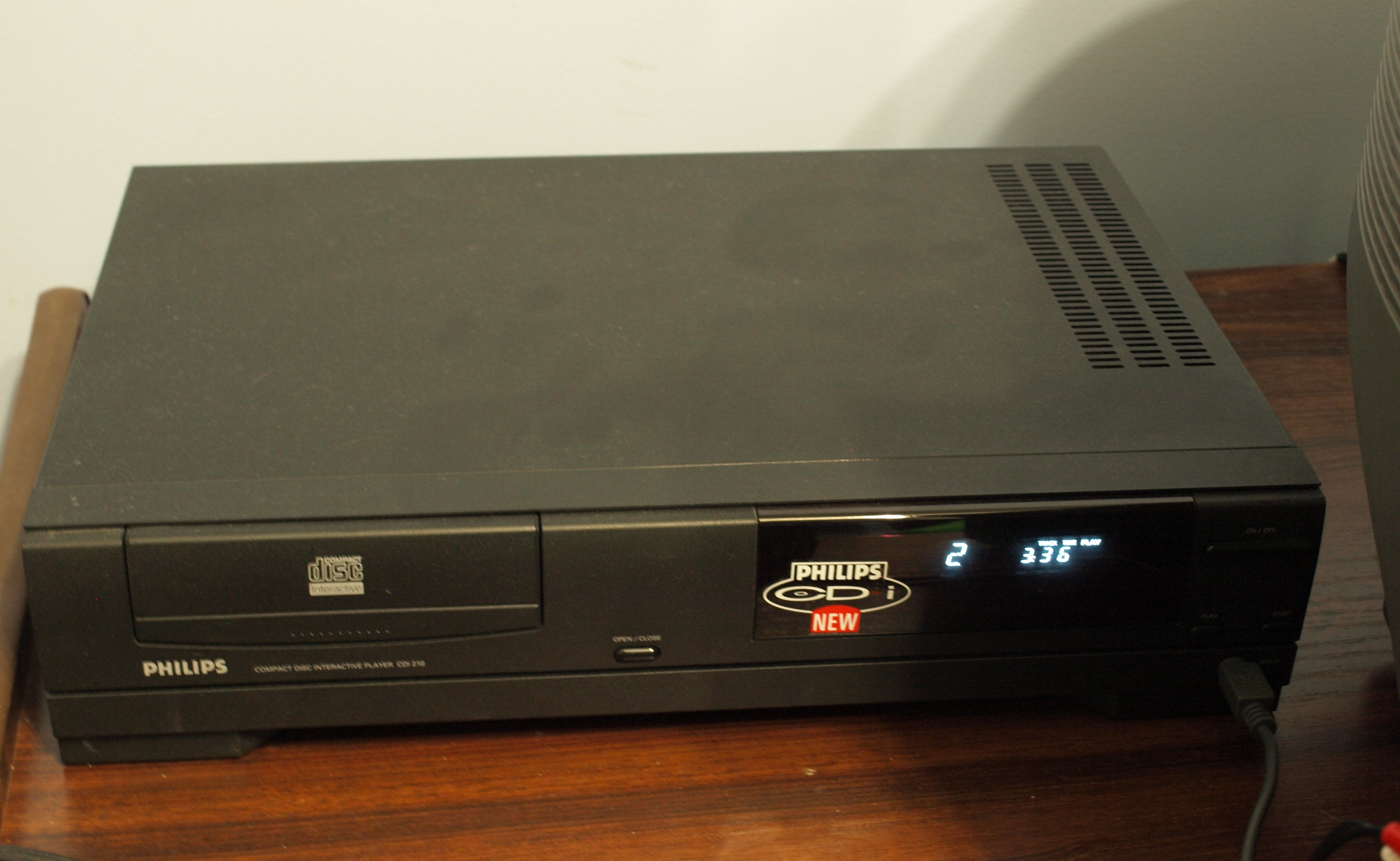 A Philips CD-i 210 while being used as a CD Player.